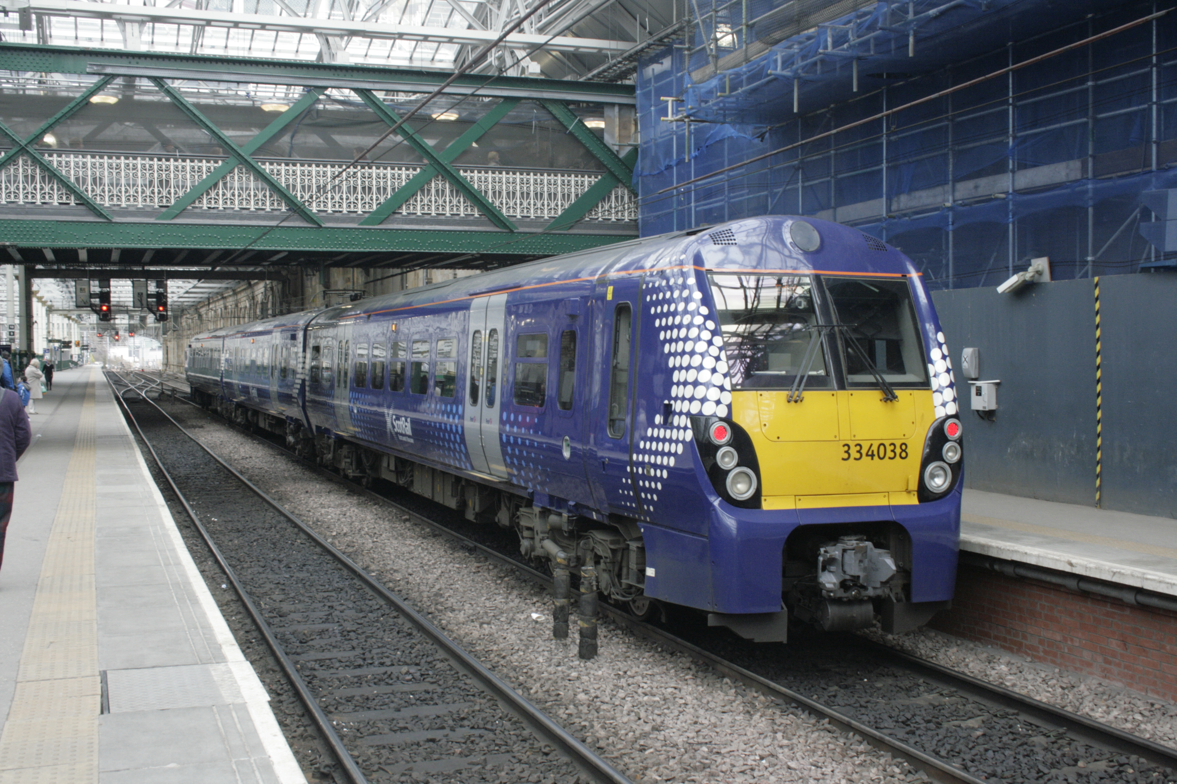 A ScotRail Saltire-liveried Class 334, no 334038, sits at Edinburgh Waverley having just completed a North Clyde Line run from Helensburgh Central.